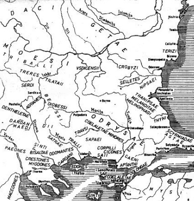 Map of Tribes inhabiting Thrace and Environs.Also exhibiting Celtic migrations.